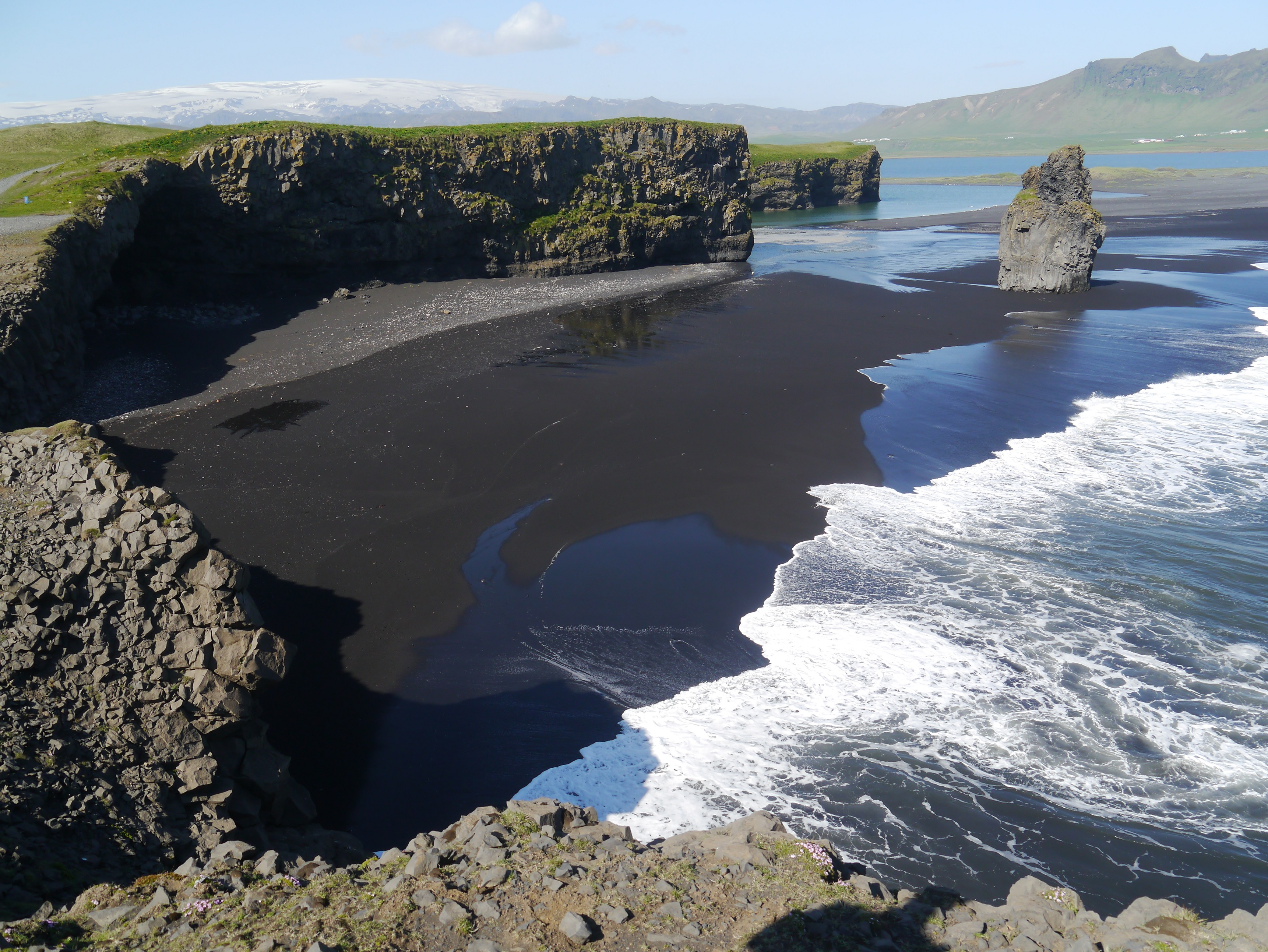 a black beach made of ash near Dyrhólaey Peninslula, Southern Iceland